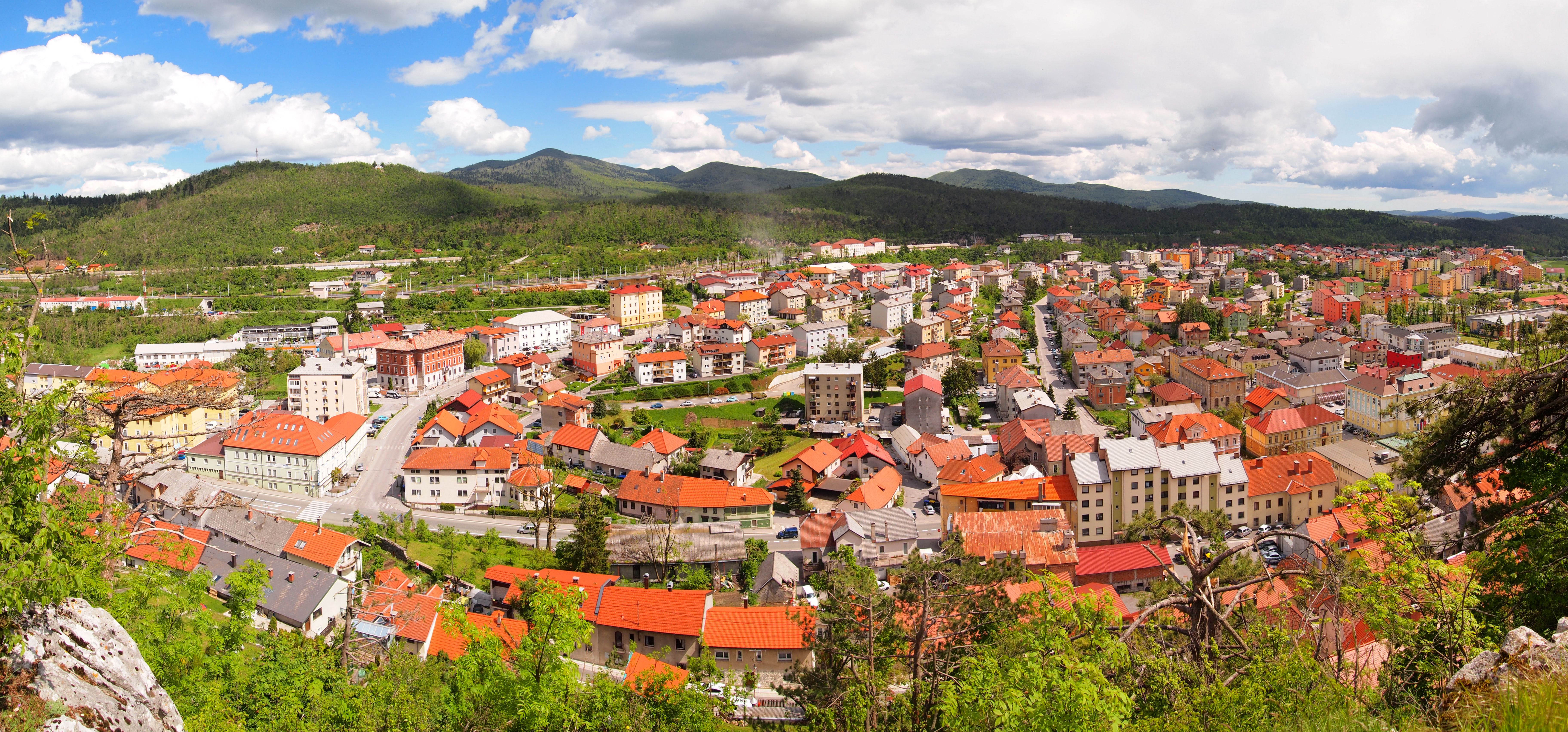 View from a hill to Postojna town. This photograph was taken with an Olympus E-PL1